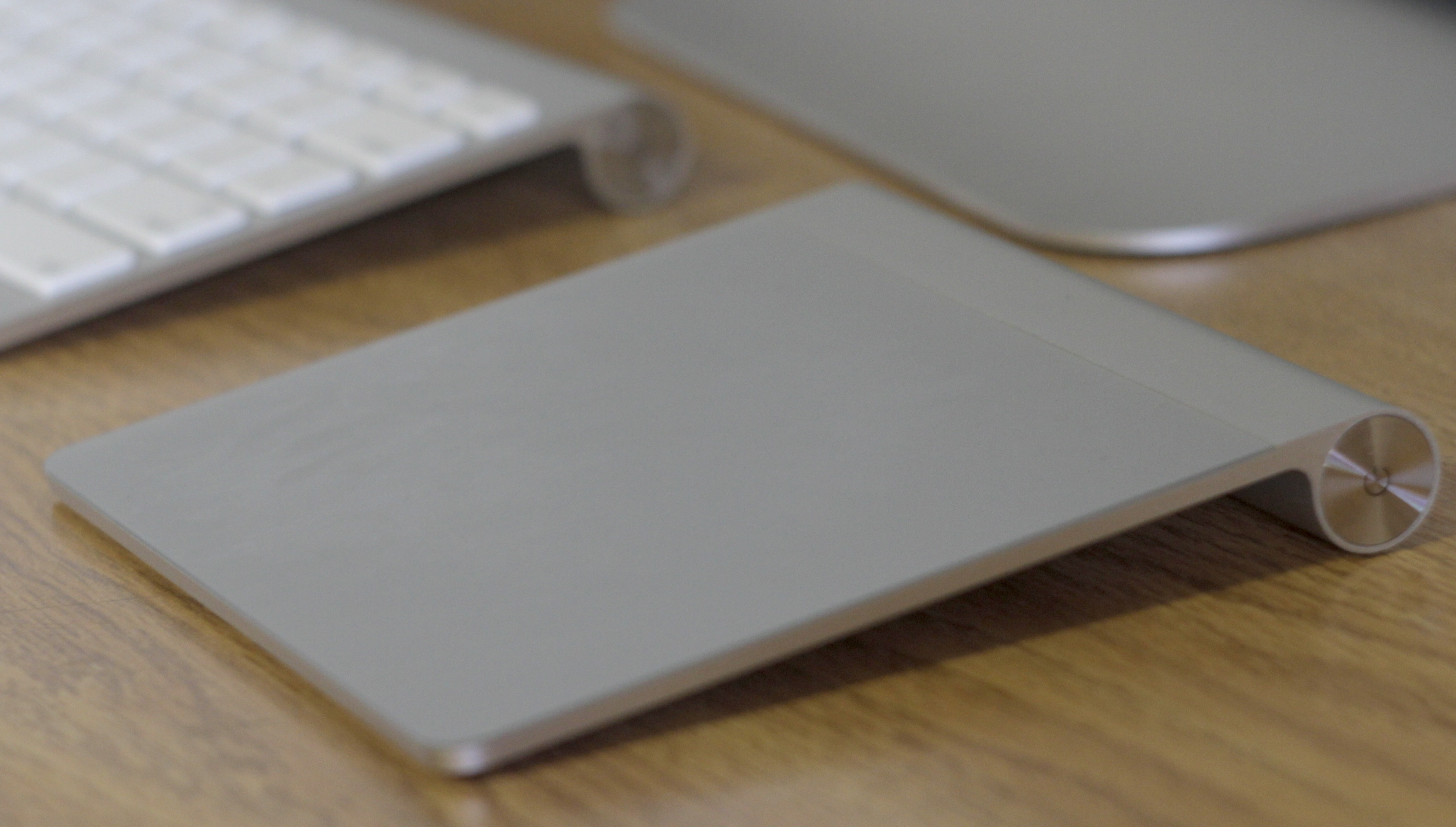 A picture of the Magic Trackpad next to the Apple Wireless Keyboard